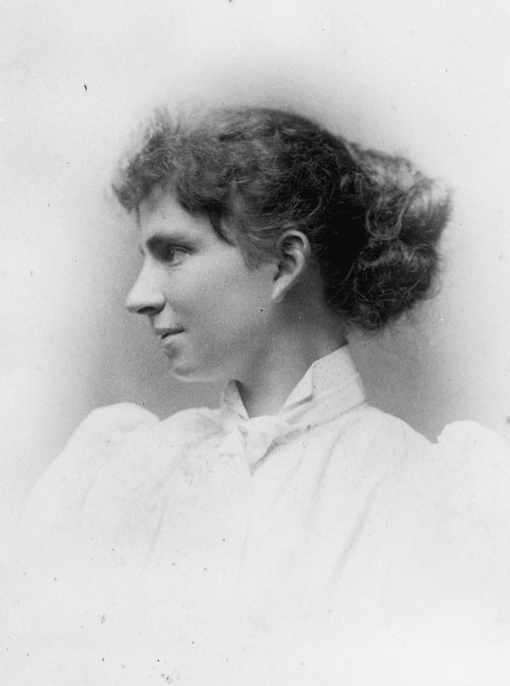 Mabel McIndoe, who exhibited her art under her maiden name Mabel Hill, photographed by Francis Lawrence Jones at his studio in George Street, Dunedin. Hill moved to Dunedin after her wedding in January 1898; the photographer died later that year. So if the photo was really taken by him, the stated year of the photo (circa 1902) is wrong.